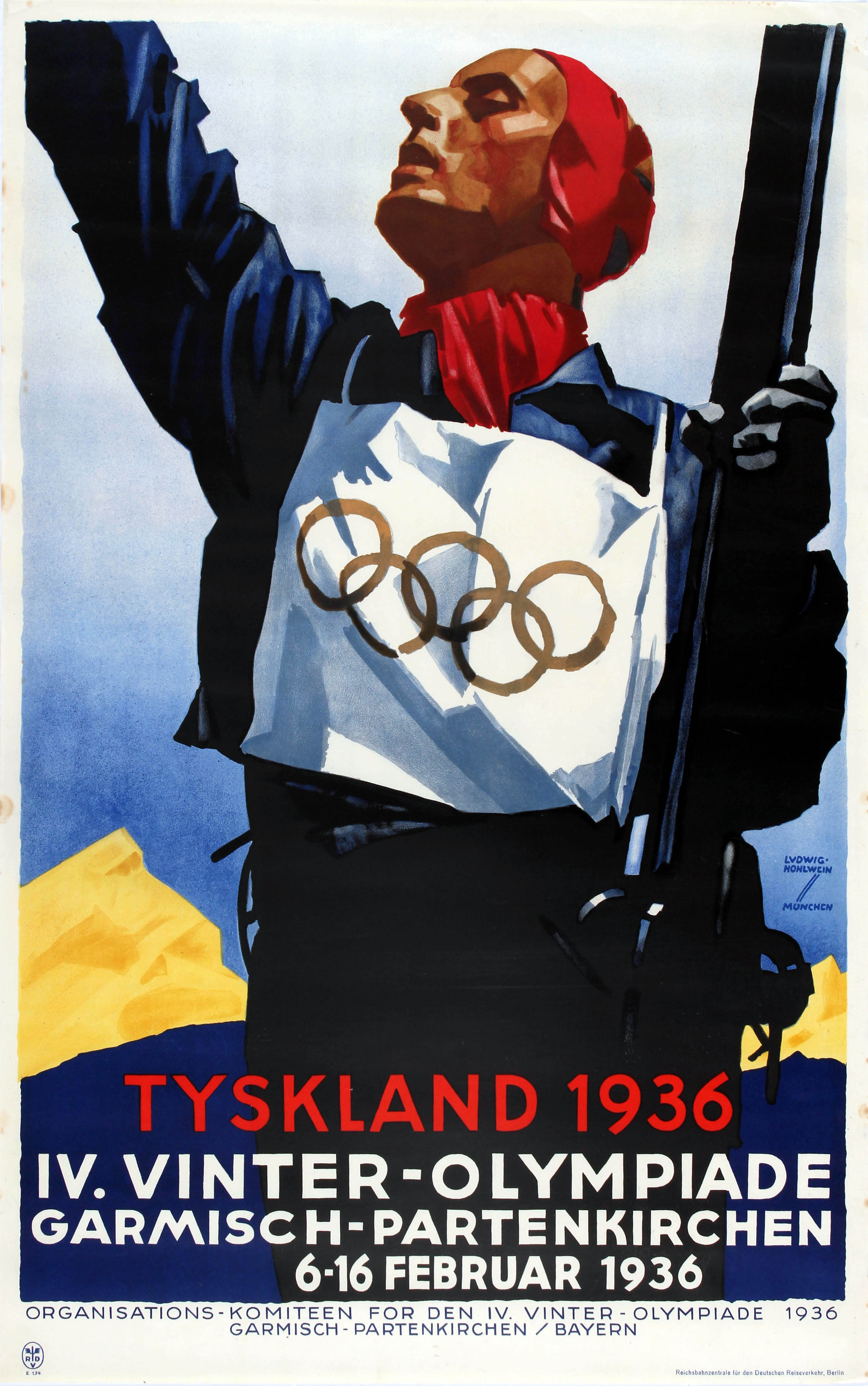 Ludwig Hohlwein - Tyskland 1936 IV. Vinter Olympiade Garmisch-Partenkirchen 6-16 Februar 1936 Poster with text in Danish. Published by the Reichsbahn Centrale for the German Travel Agents, Berlin